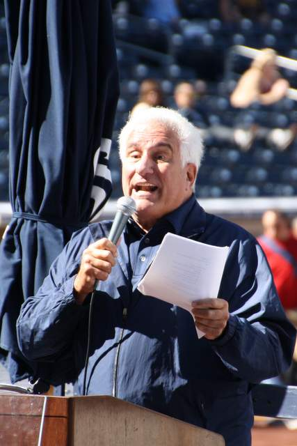 Announcer Ted Leitner of the San Diego Padres at the team's 2014 fan fest.